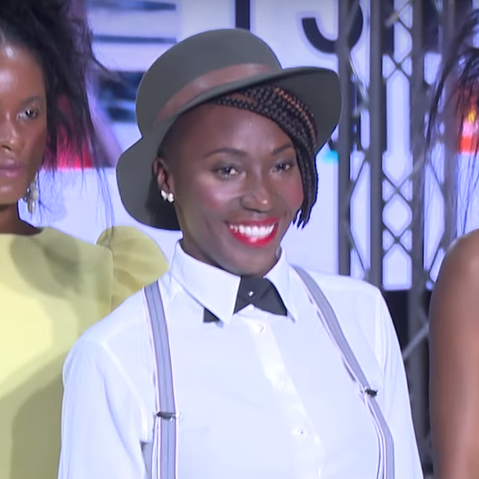 Adama Paris Fashion Week 24 Nov 2016 on NdaniTV